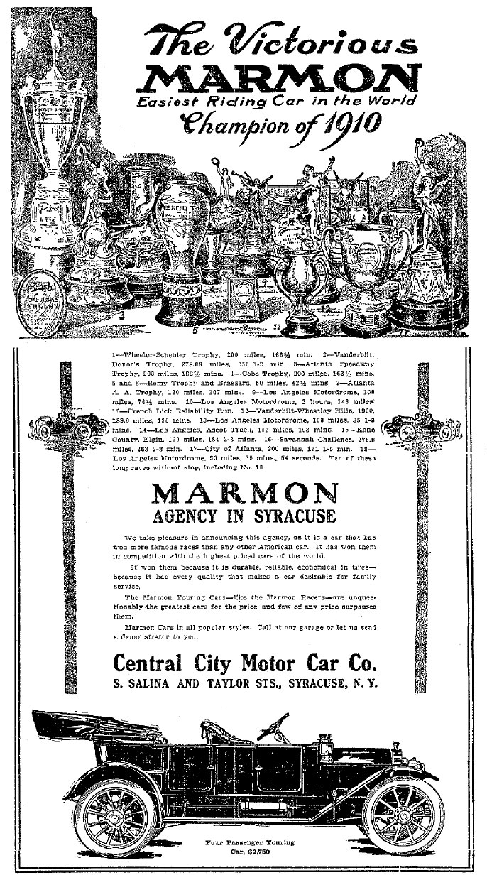 A 1911 Marmon Advertisement